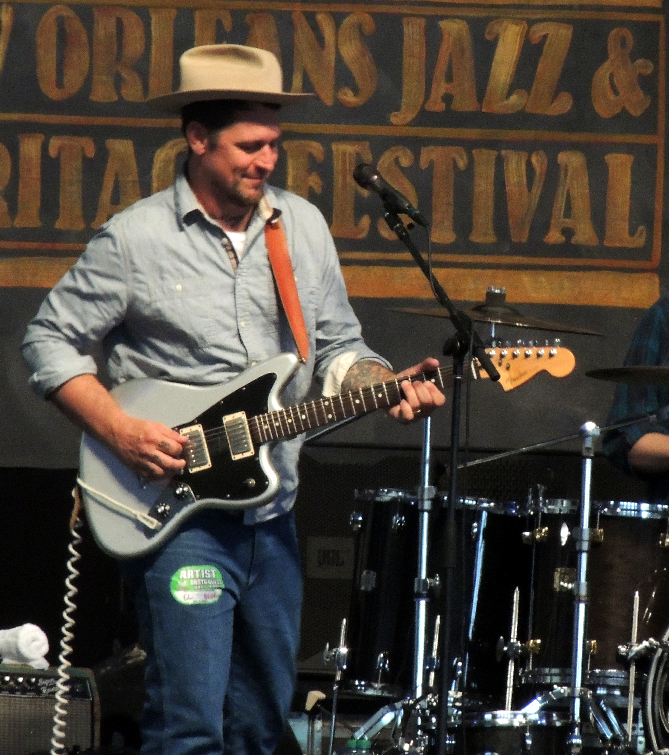 Lindell performing at the New Orleans Jazzfest in 2012